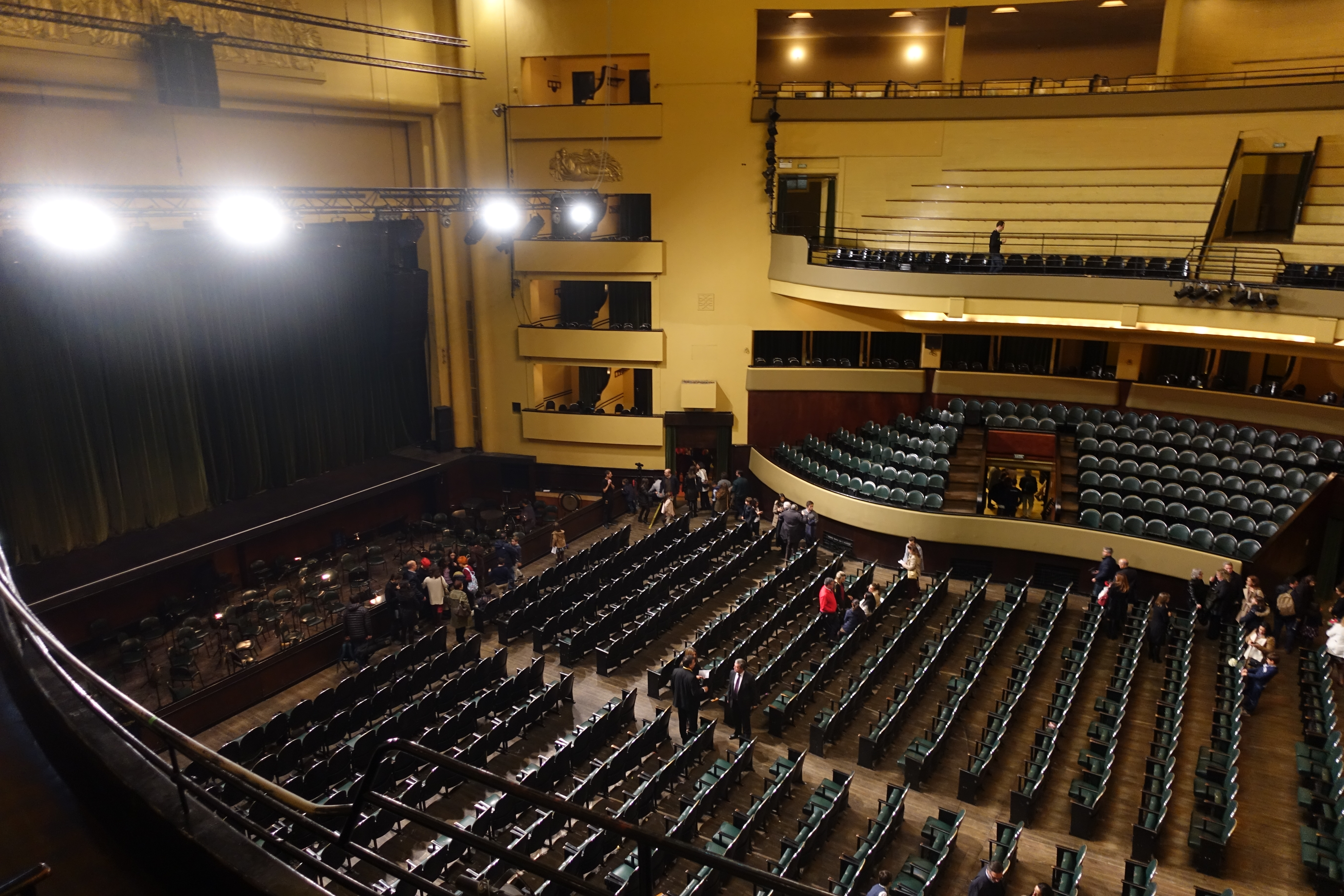 Interior of Coliseu do Porto in 2016, Porto, Portugal.